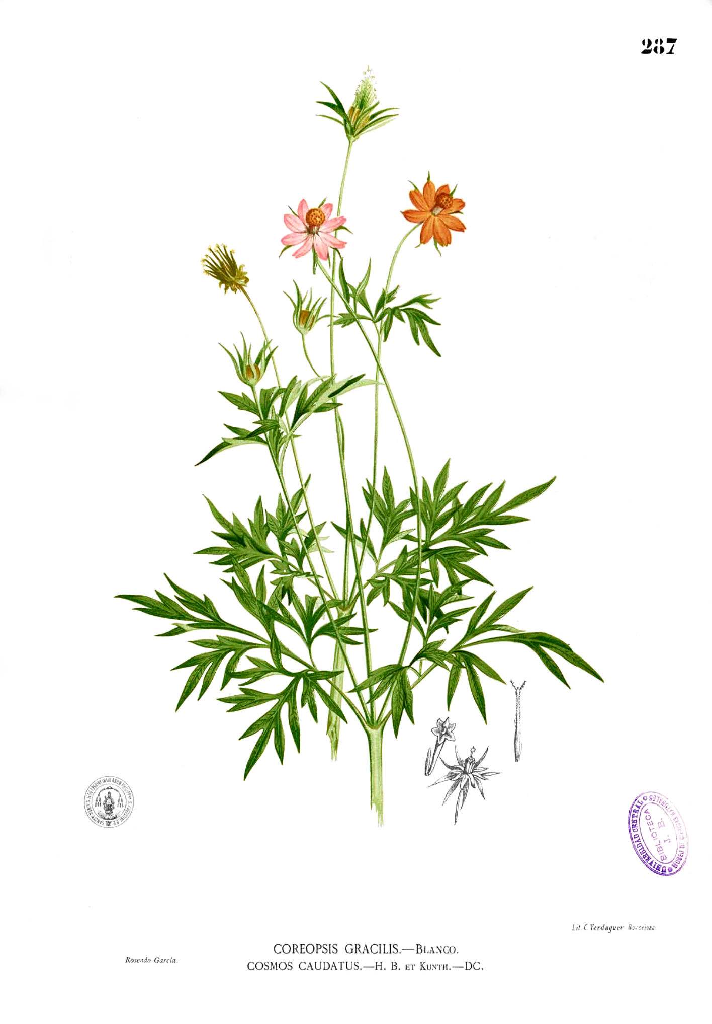 Plate from book